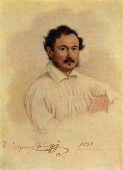 Dmitry Shchepin-Rostovskiy